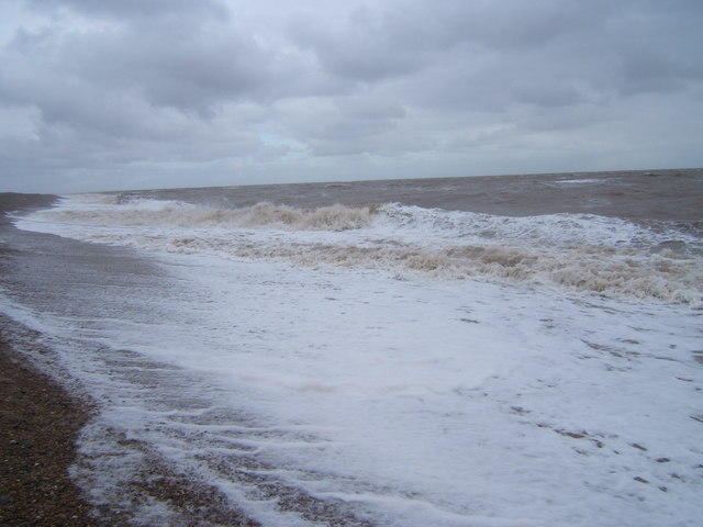 The sea in winter at Thorpeness